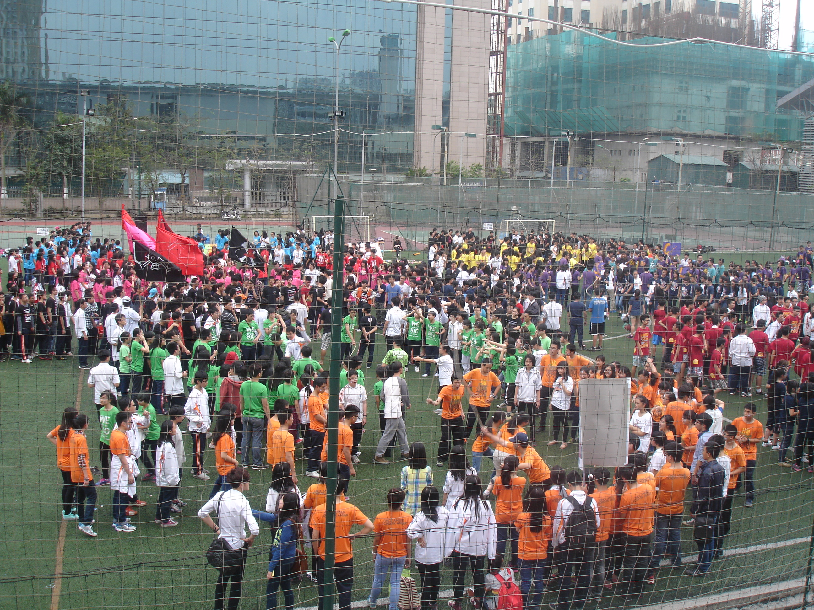 Sport Festival 2014 HN-Ams